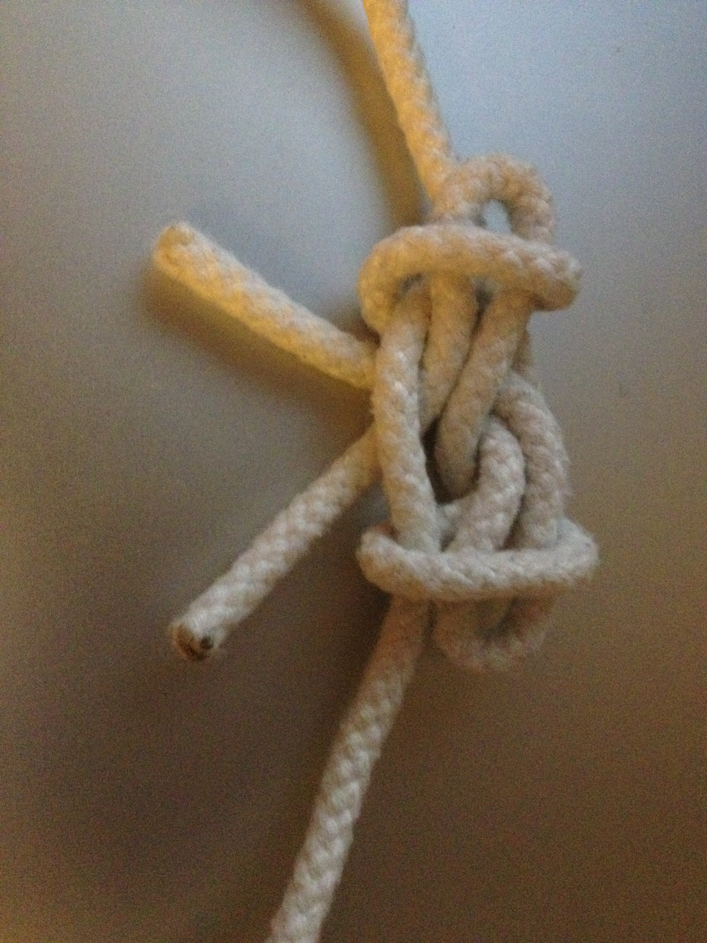 Untightened slipped reefer bend